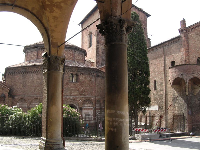 Buildings of Saint Stephen's Basilica in Bologna, Italy, also known as "The Seven Churches". In this picture, the building called "Basilica del Santo Sepolcro" as seen from piazza Santo Stefano square. Picture by Paolo Carboni.